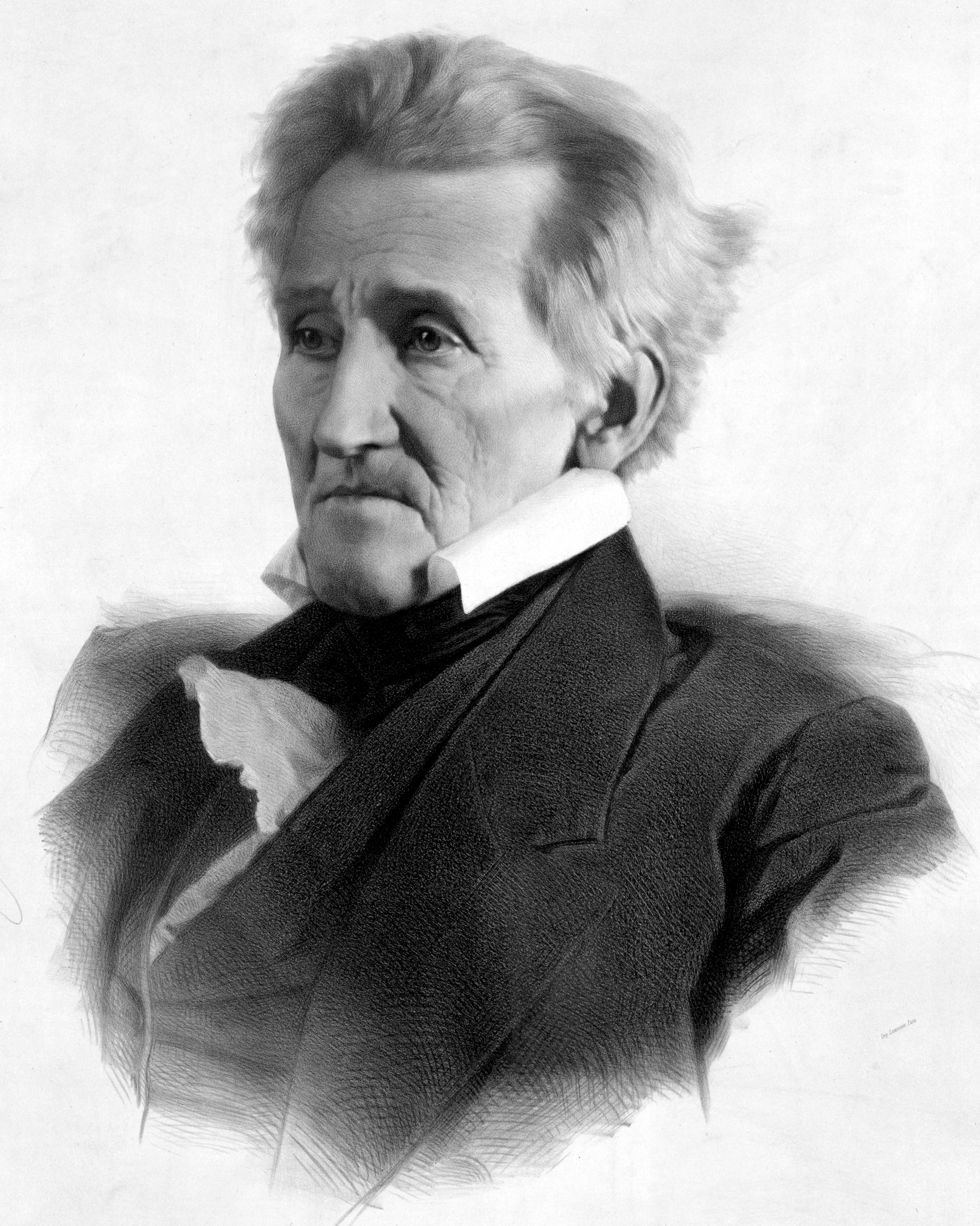 Andrew Jackson. Cropped portion of stone drawing by Lafosse after Brady's Daguerreotype.